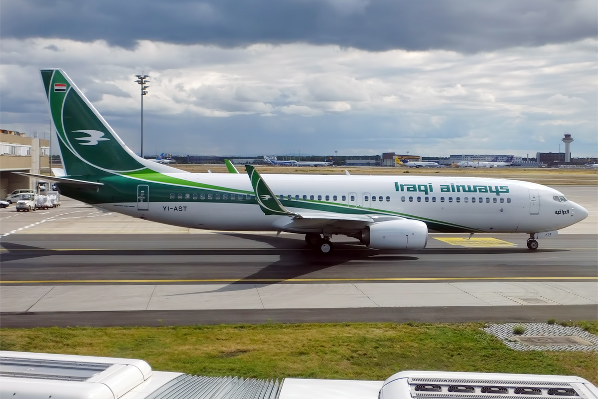 Iraqi Airways, YI-AST, Boeing 737-81Z